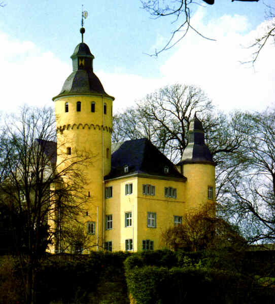 Castle Homburg (Schloss Homburg) in Nümbrecht. - Schloss Homburg in der Gemeinde Nümbrecht. Author mrfinch Time of creation 2003 Licence GNU FDL and CC-by-SA Camera Canon S 45